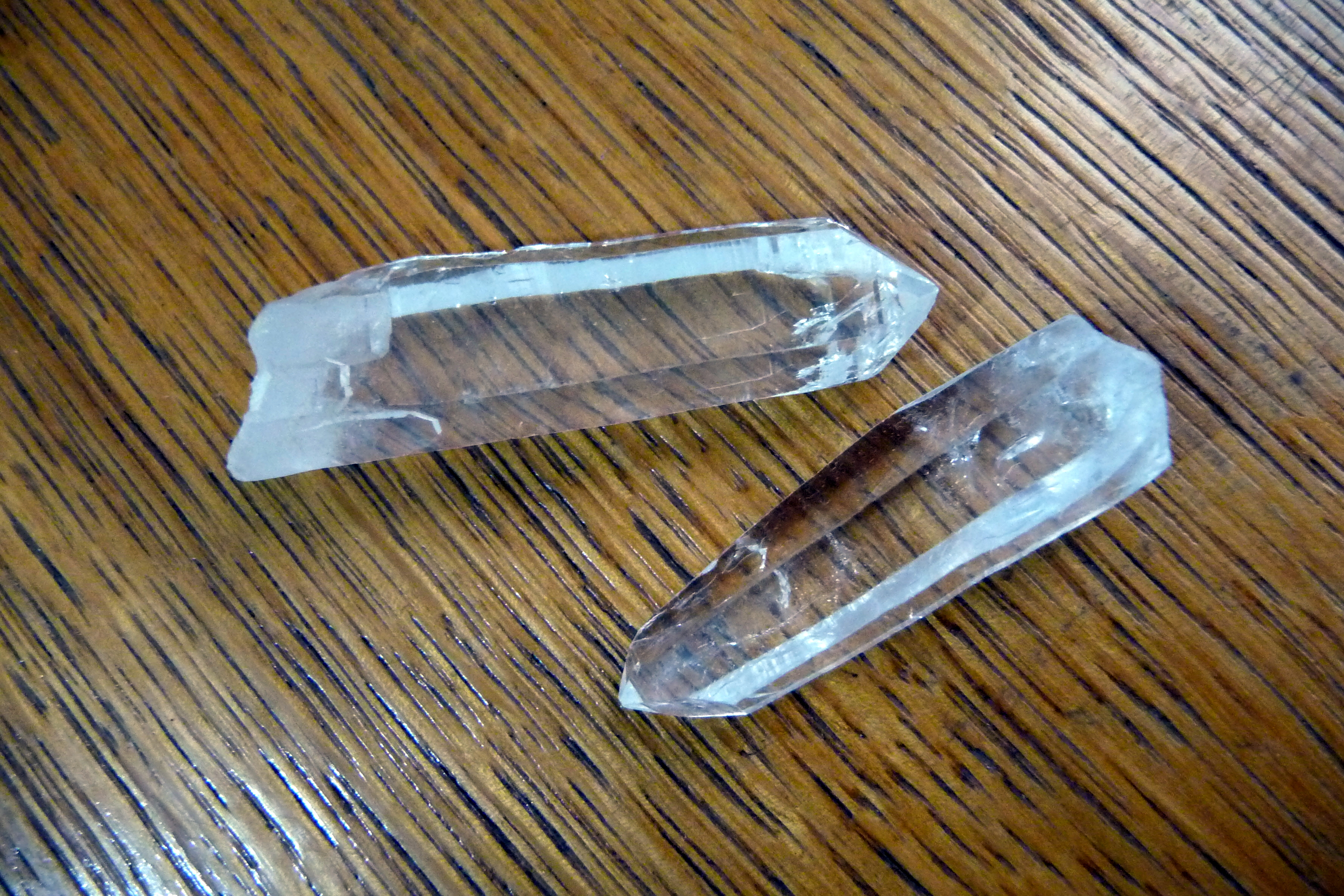 Two transparent crystals